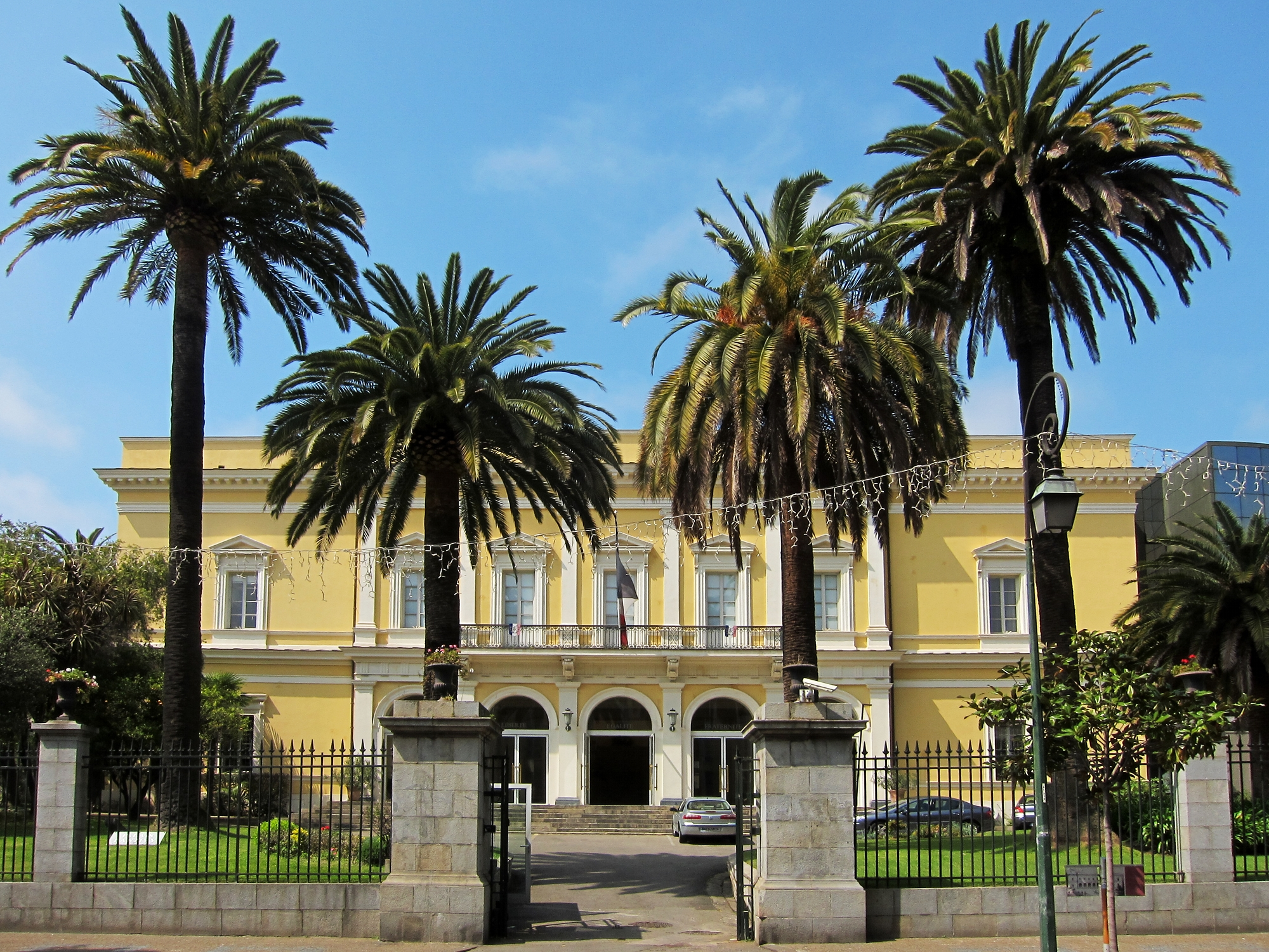 Prefecture of Ajaccio, Corsica, France.